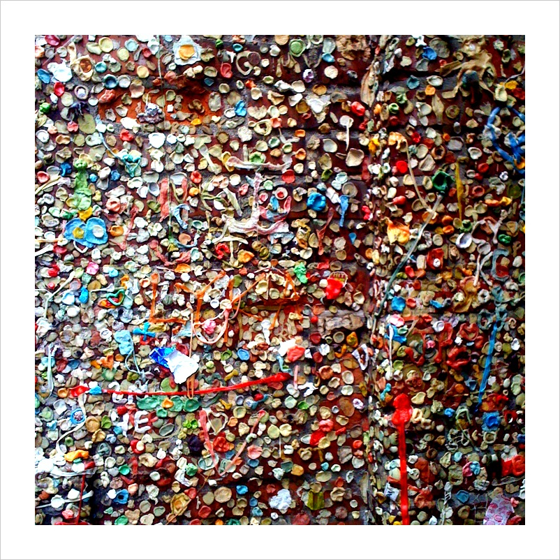 Gum Wall in Seattle. Filtered using the Camera Bag app.